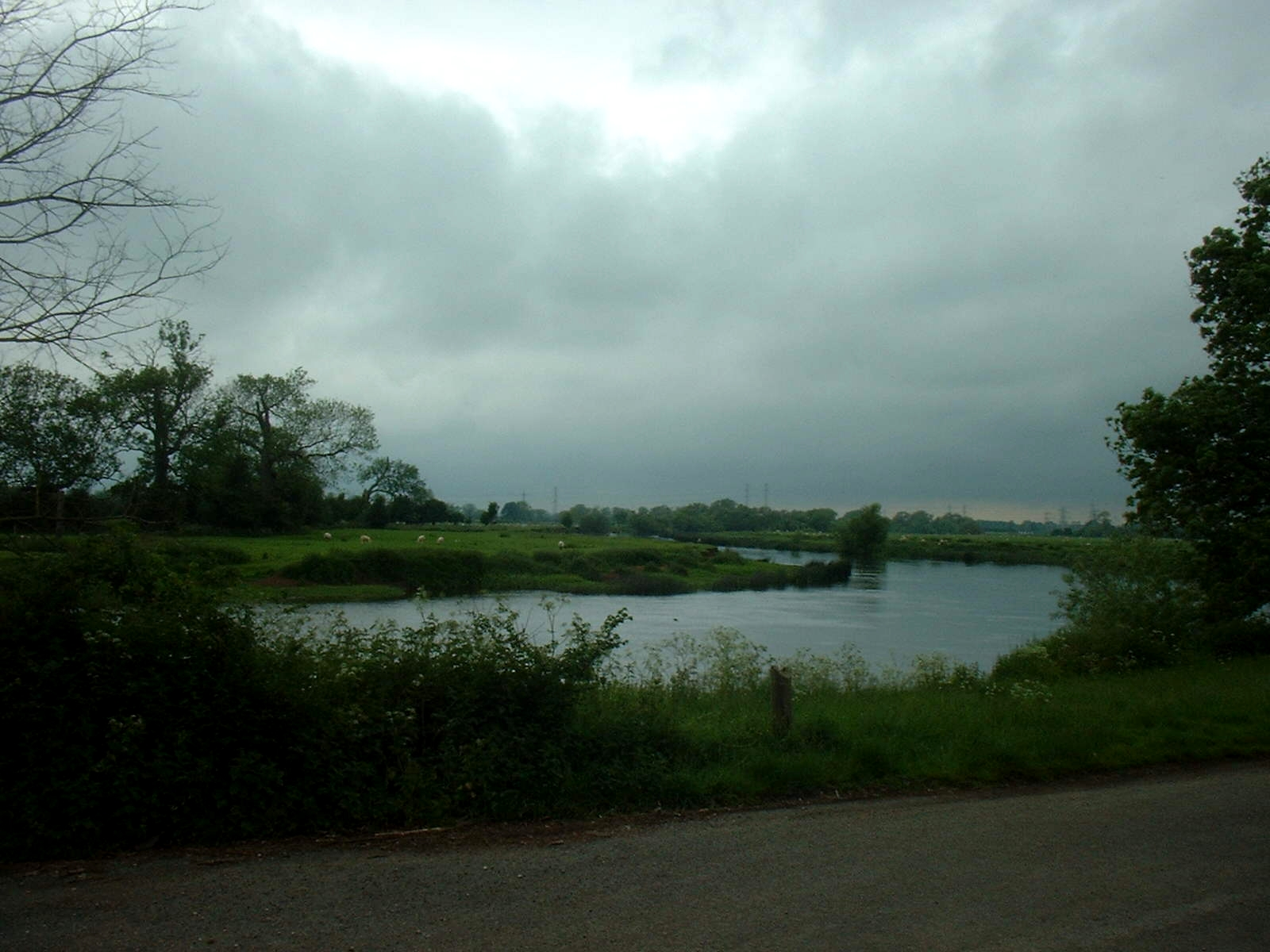 Twyford Village River Trent view from near where the ferry was South Derbyshire England UK